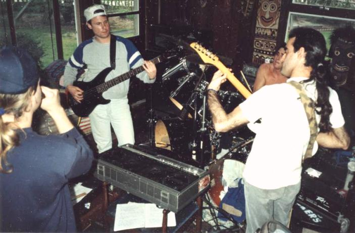 Heavy Rain rehearsing in Baldwin, Long Island, May 1989. Left to right: Craig Allan, Gary Meskil, Dan Richardson, Marc Piovanetti. Other information Photograph taken on standard film roll camera and scanned for internet purposes.